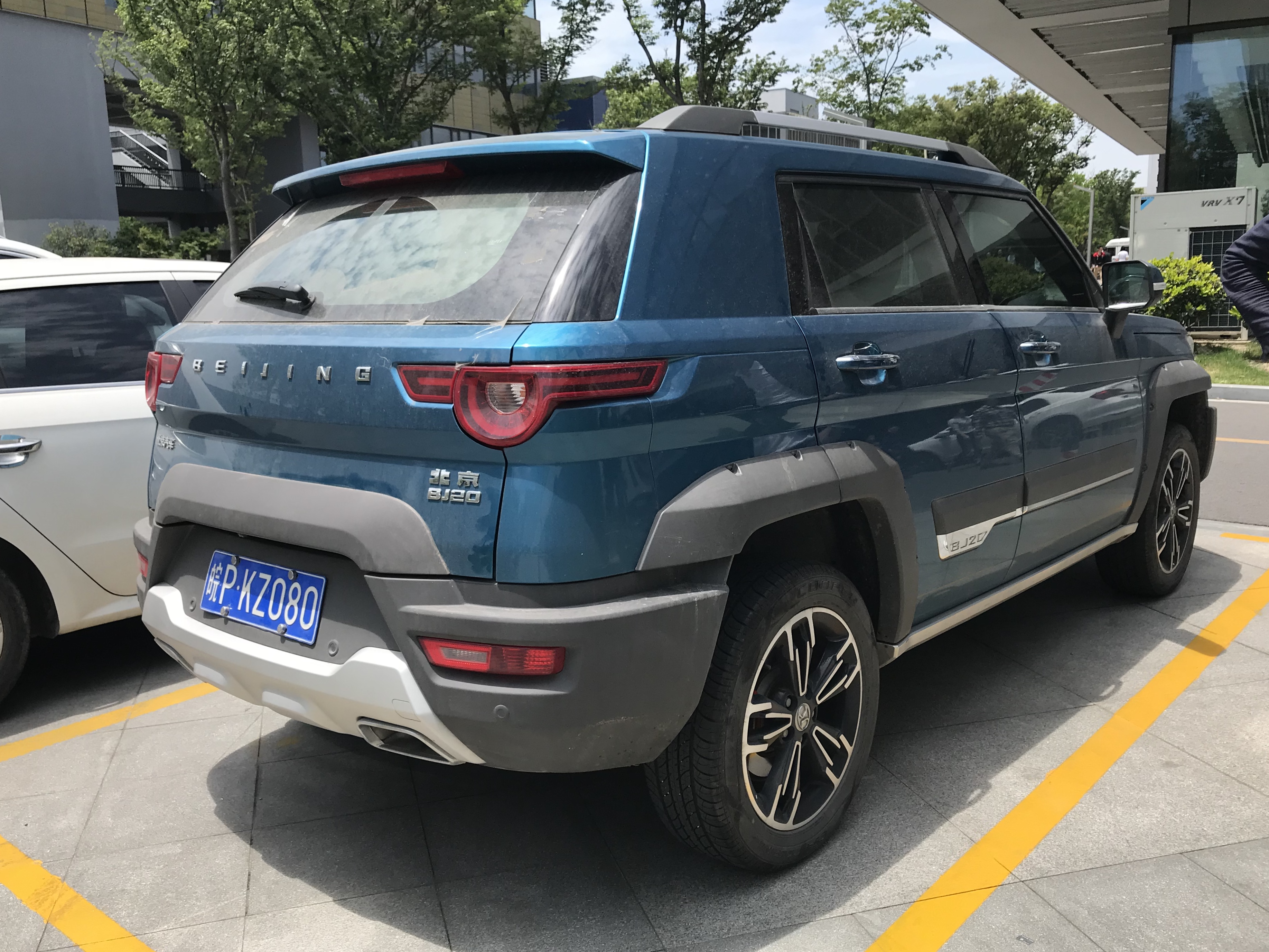 BAIC BJ20